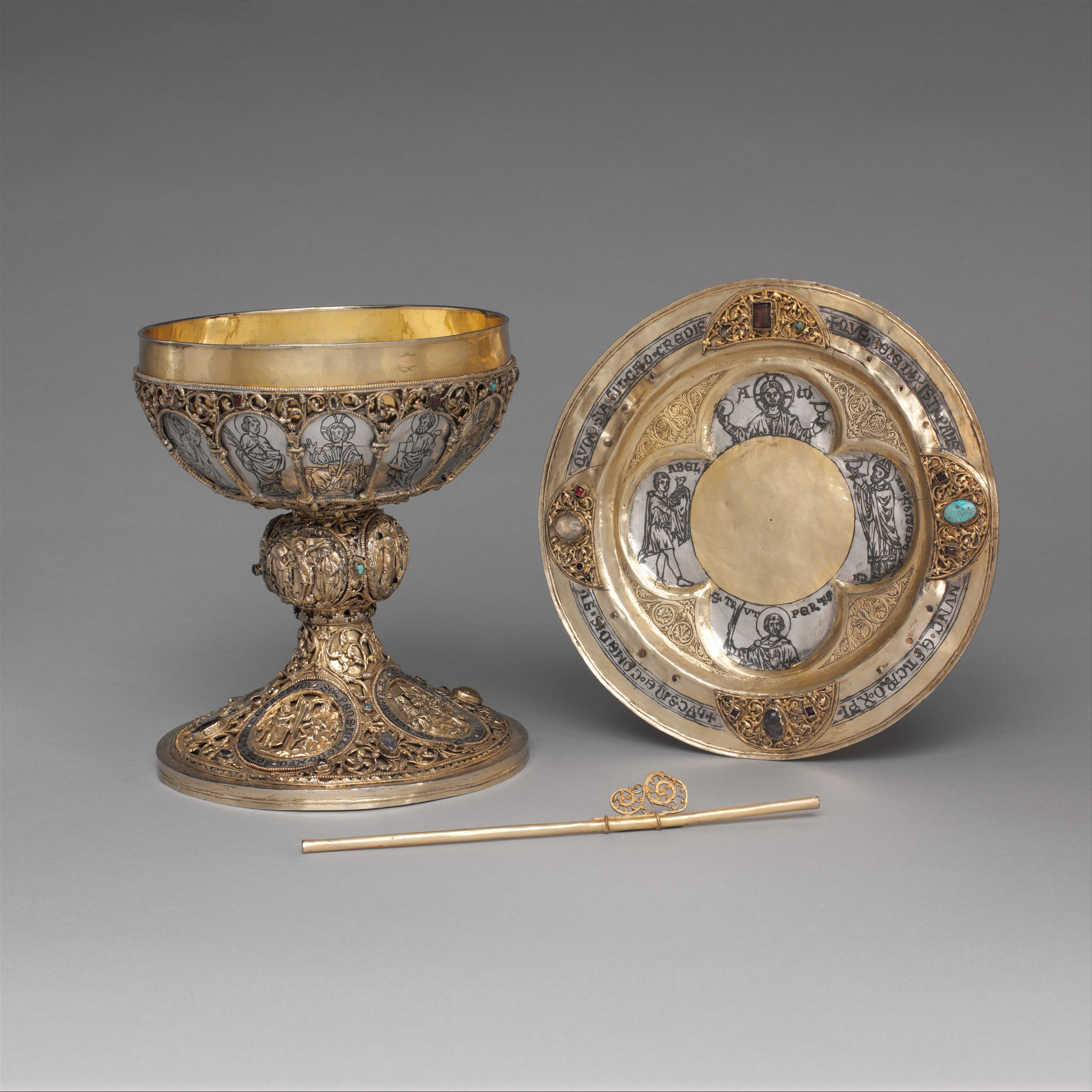 German; Chalice; Metalwork-Silver